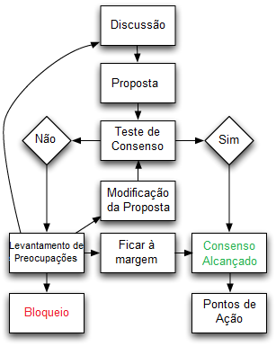 Flowchart consensus decision process - Version translation (File:Consensus-flowchart.png)